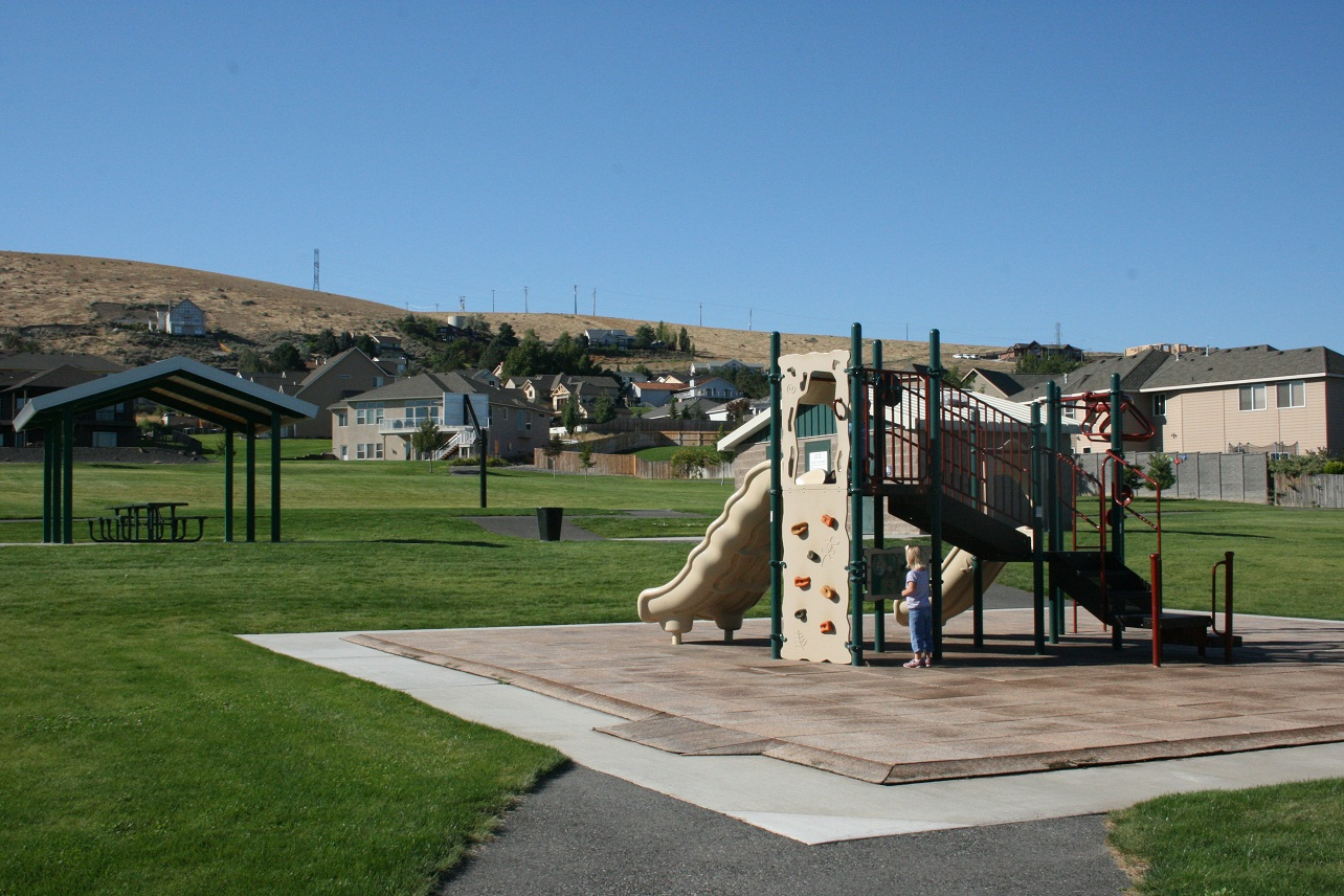 Inspiration Park, 2010 Kennewick Washington